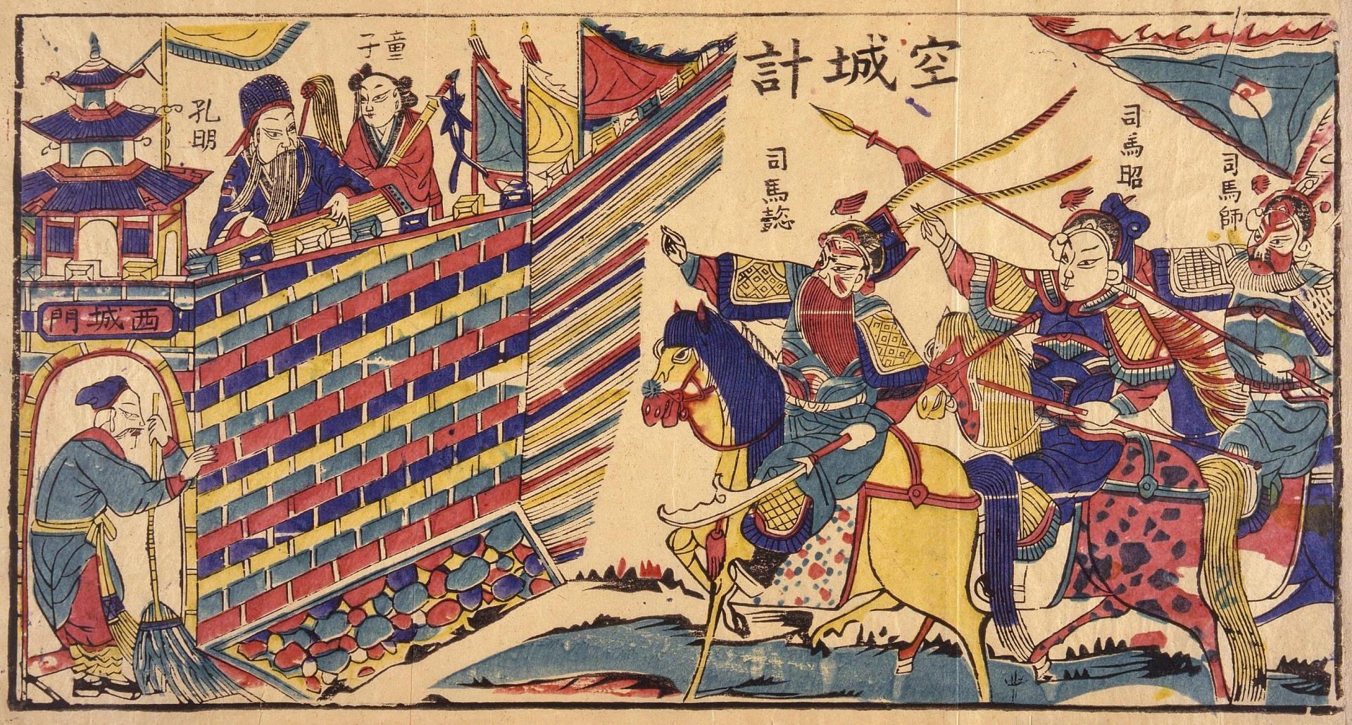 This image depicts Zhuge Liang (諸葛亮), styled Kongming (孔明), on top of the city wall as well as Sima Yi (司馬懿), Sima Zhao (司馬昭), and Sima Shi (司馬師) outside the city.